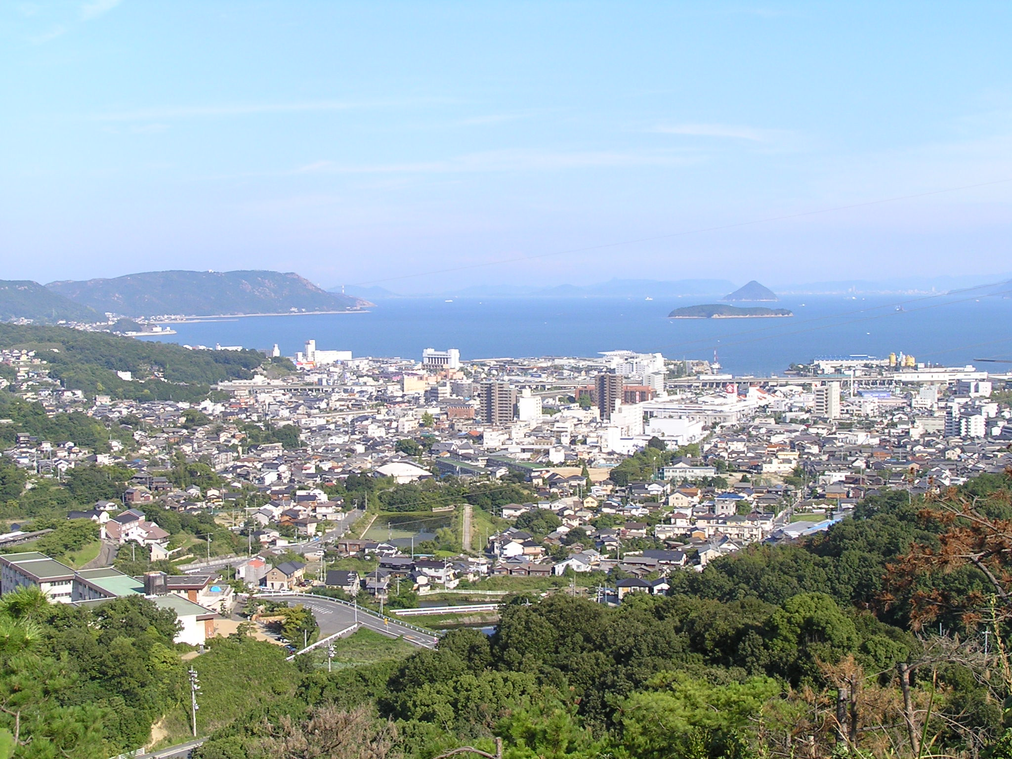 Kurashiki City Kojima town seen from Washuzan skyline